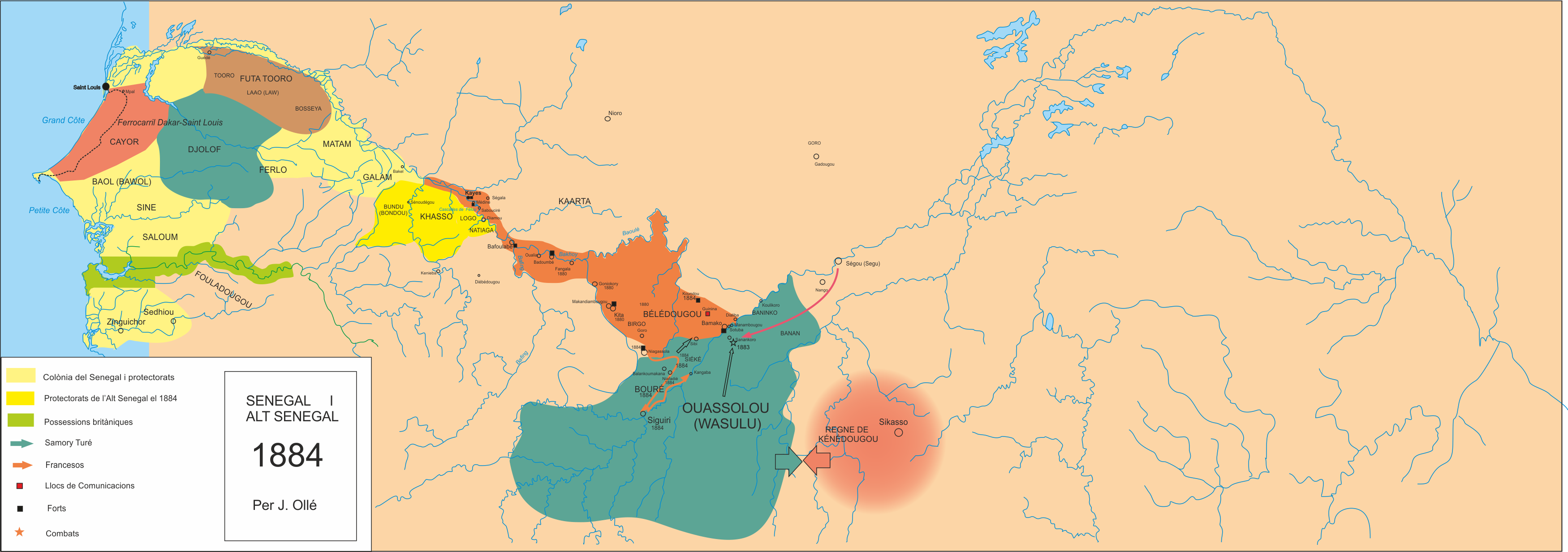 Senegal-Mali 1884